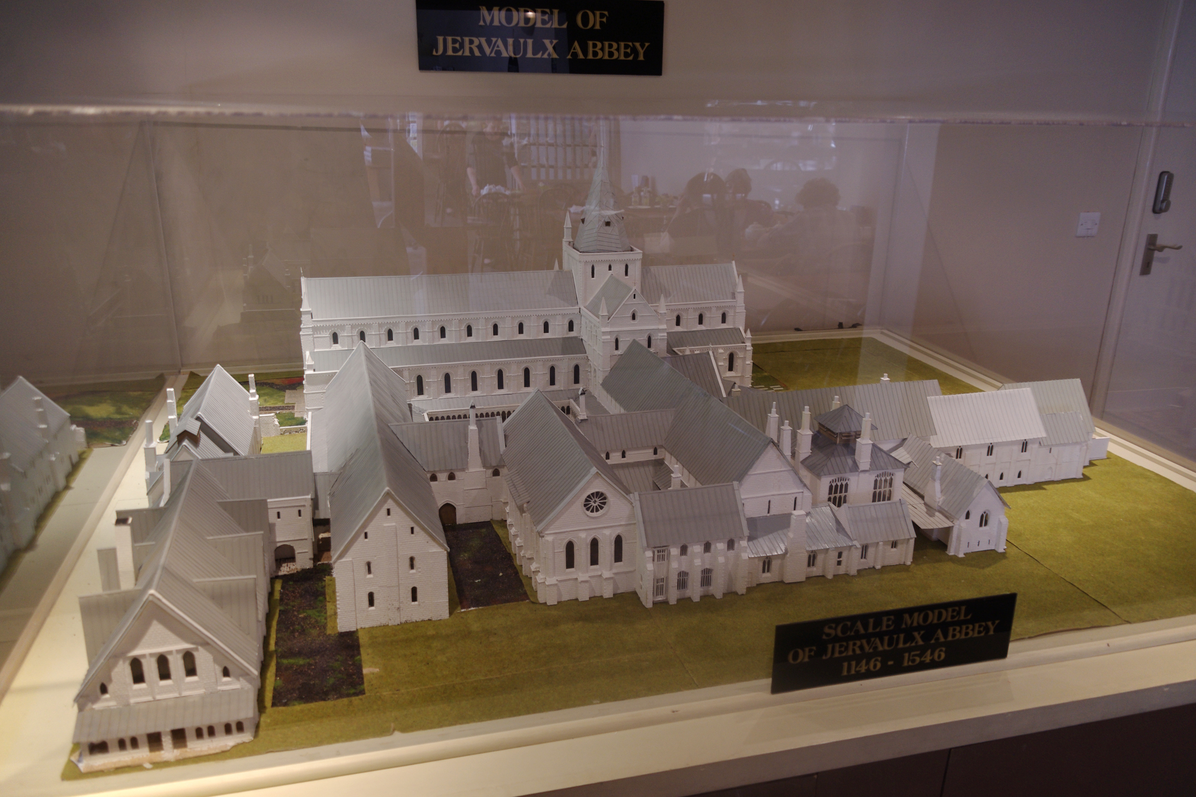 Jervaulx Abbey - a model in the café.